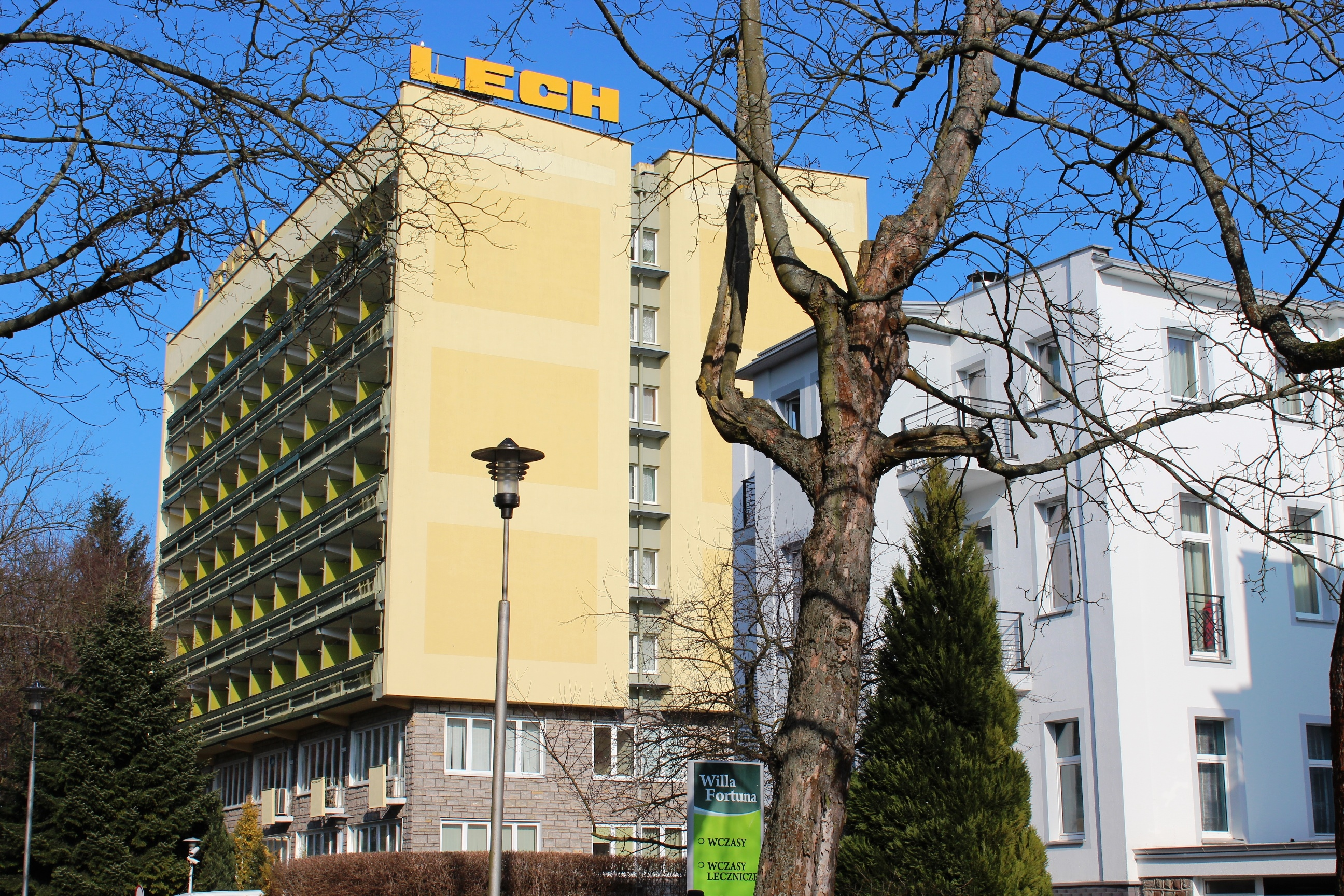 Lech Sanatorium in Kołobrzeg